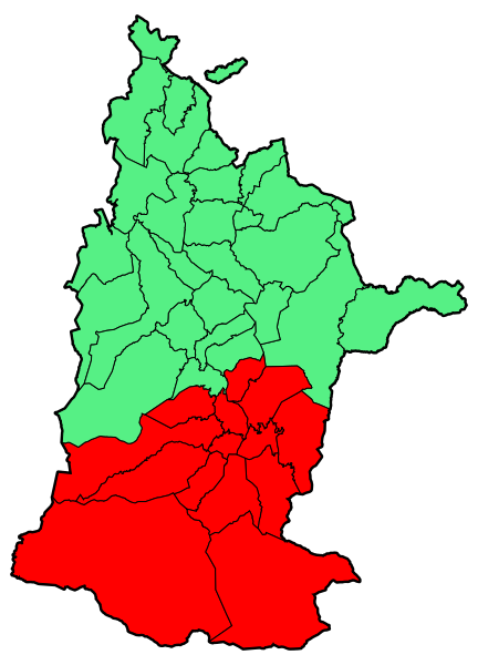 Map of Basabürüa in Zuberoa according to Euskaltzaindia